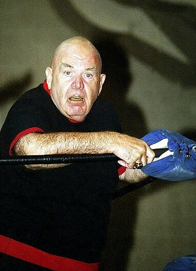 Wrestling legend George The Animal Steele on 3/28/09 in Franklin PA License on Flickr (2010-12-27): CC-BY-SA-2.0 Flickr tags: steele, animal, wrestling, wwe